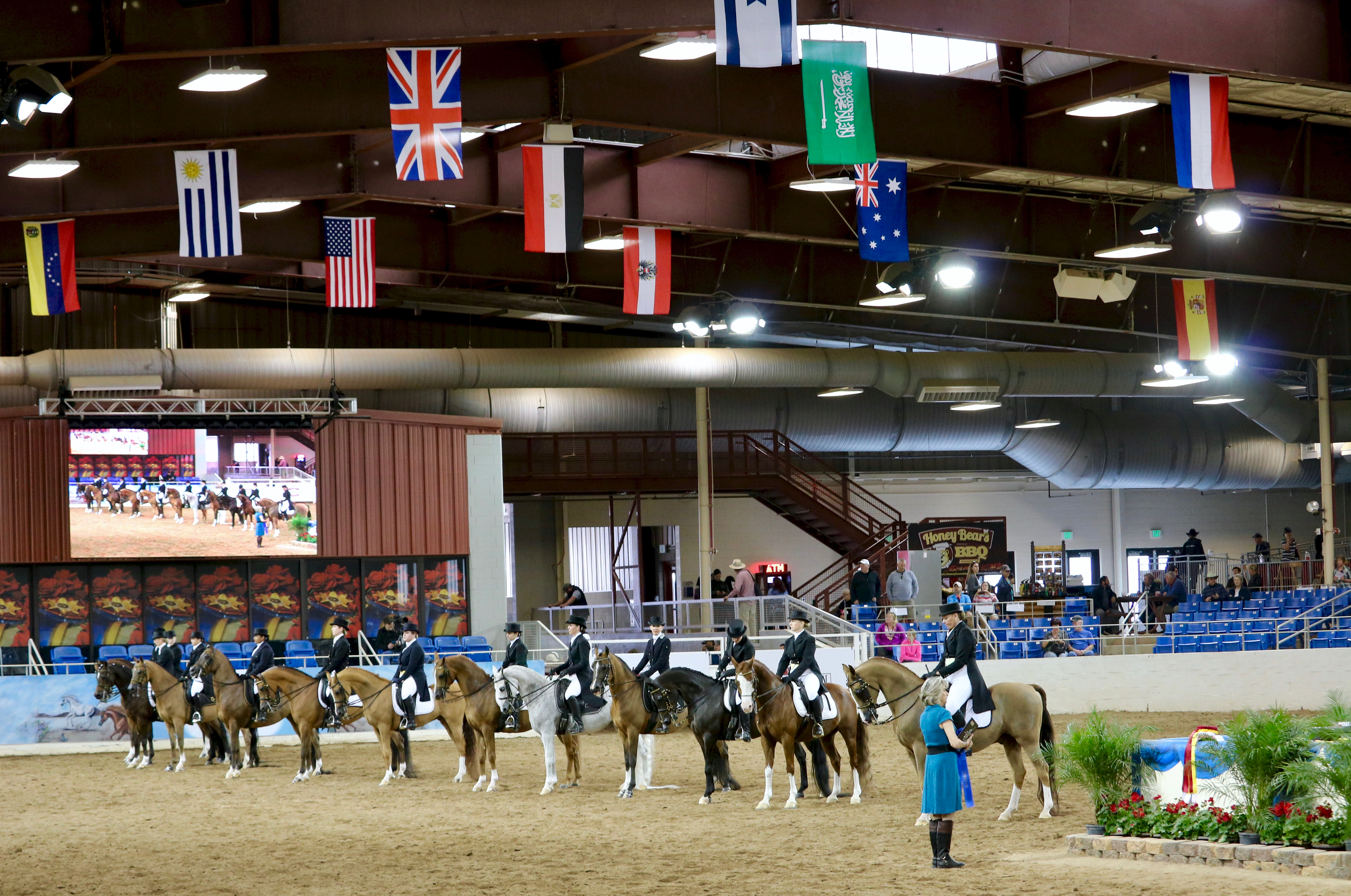 Lineup of a Show Hack Class At the 2017 Scottsdale Arabian Horse Show, Scottsdale, Arizona